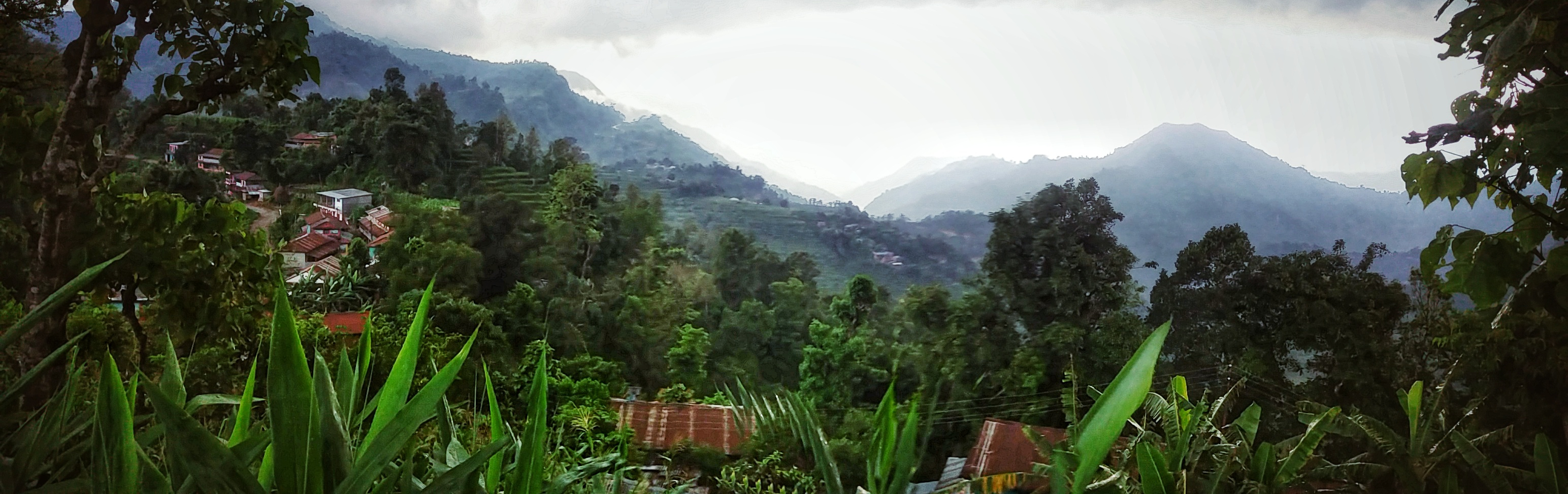 Saldanda village